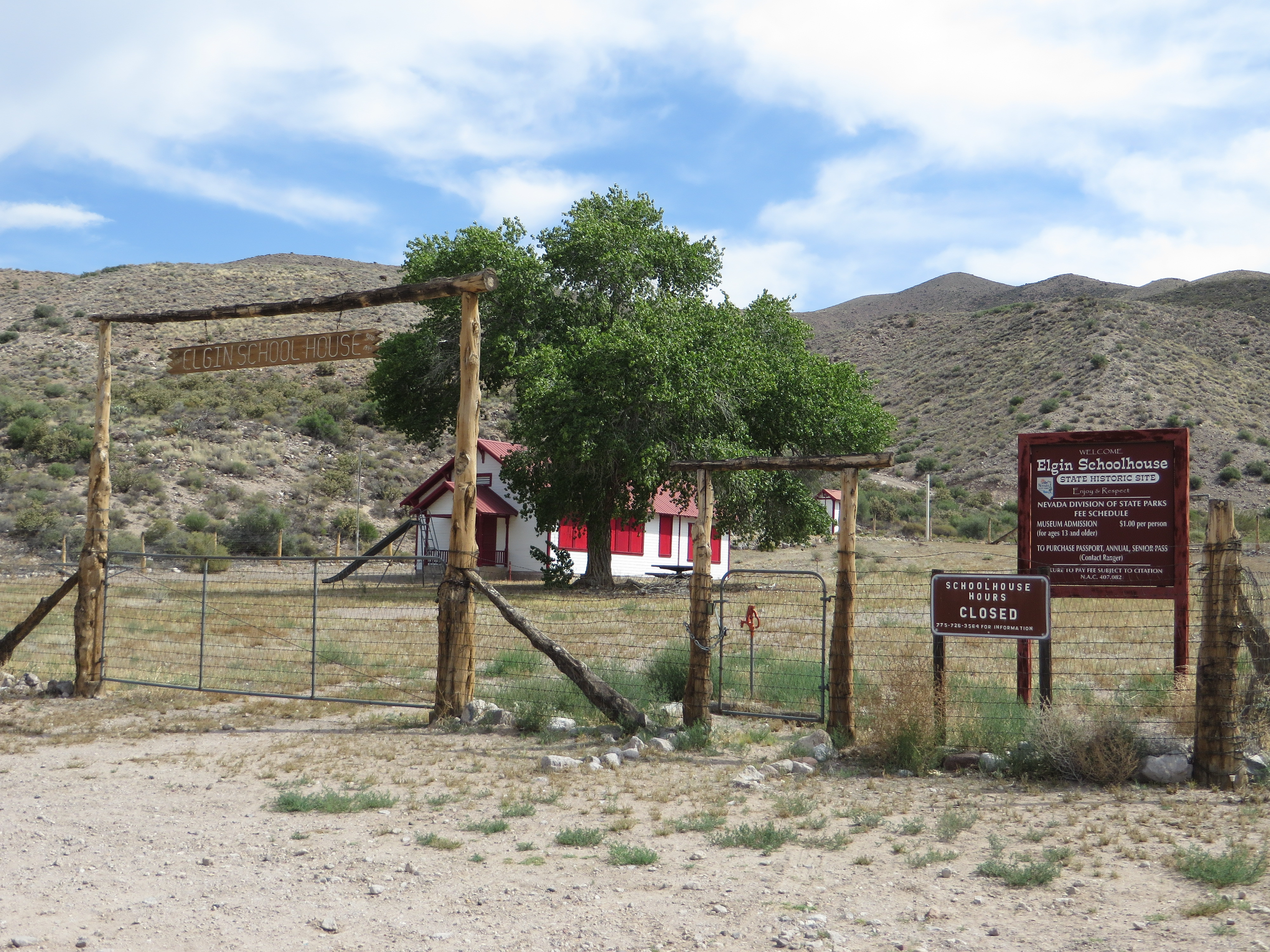 Elgin Schoolhouse State Historic Site is a state park property in Nevada, United States, preserving a historic one-room schoolhouse. The school operated from 1922 to 1967. In 1998, the building was restored to its original appearance and, in July 2005, it opened as a state historic site. Later that year, however, floods damaged Nevada State Route 317, restricting access to the site. It has been indefinitely closed to the public as of 2008. The park features half of the school's original furnishings while other items are authentic to the time period. The park is managed by Kershaw–Ryan State Park.